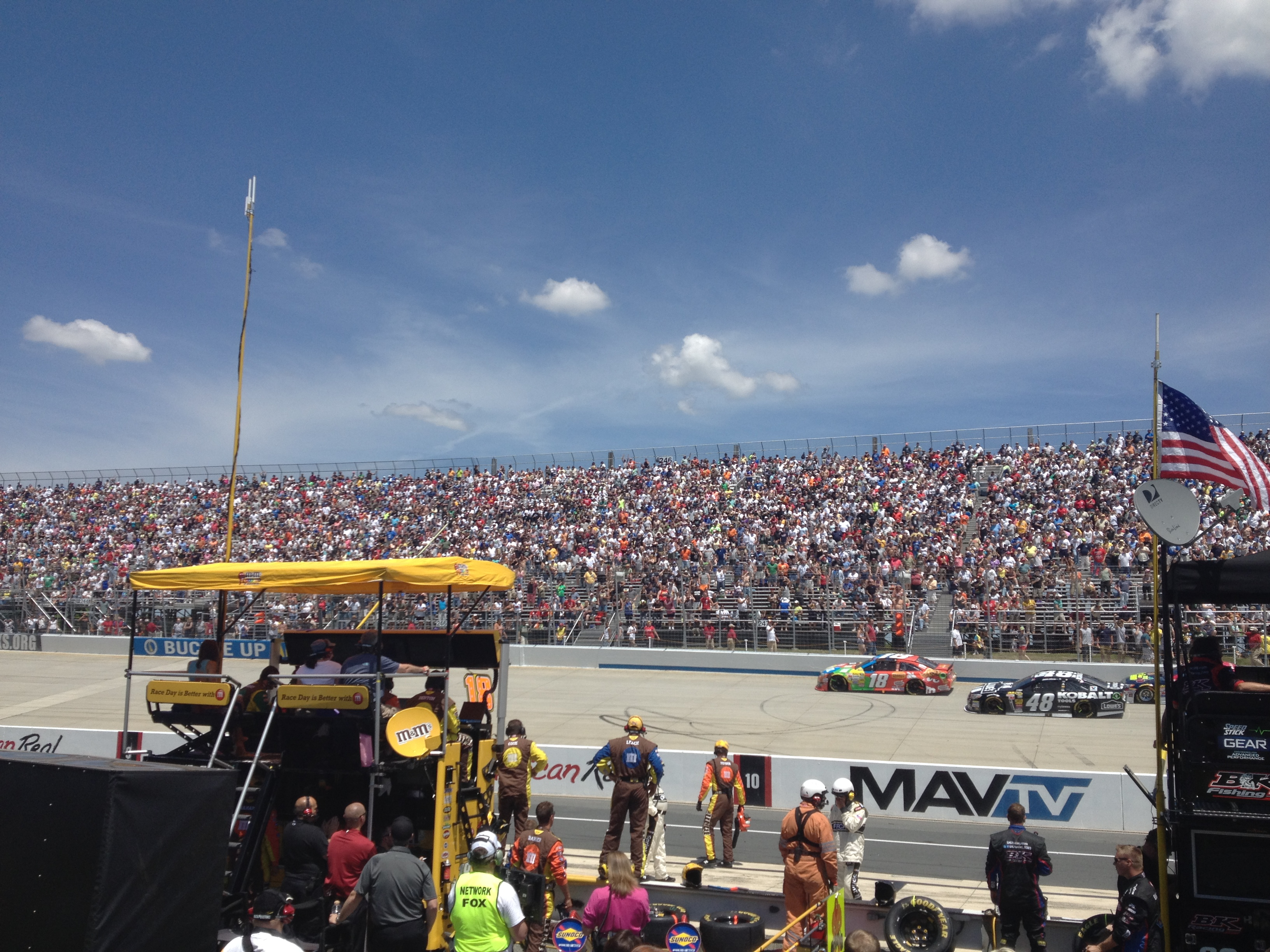 The 2014 FedEx 400 at Dover International Speedway viewed from pit road. Kyle Busch (#18) leads Jimmie Johnson (#48), Clint Bowyer (#15), and the rest of the field following a restart from a caution.